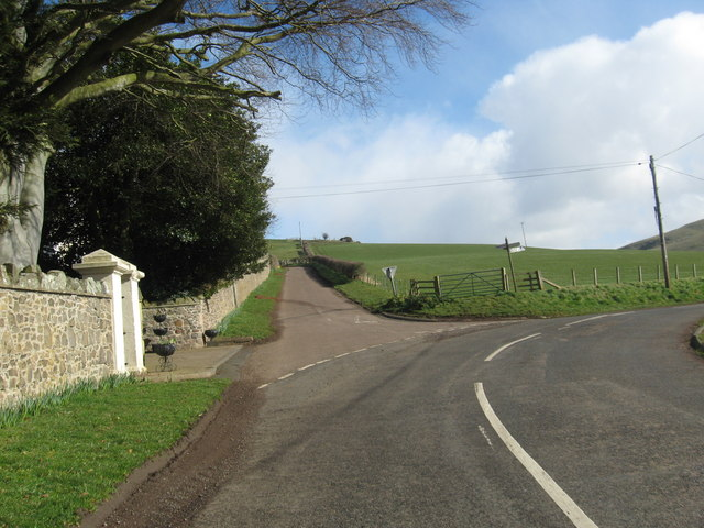 Thornington Farm The gate on the left is to the farmhouse and the road straight leads to the farm.